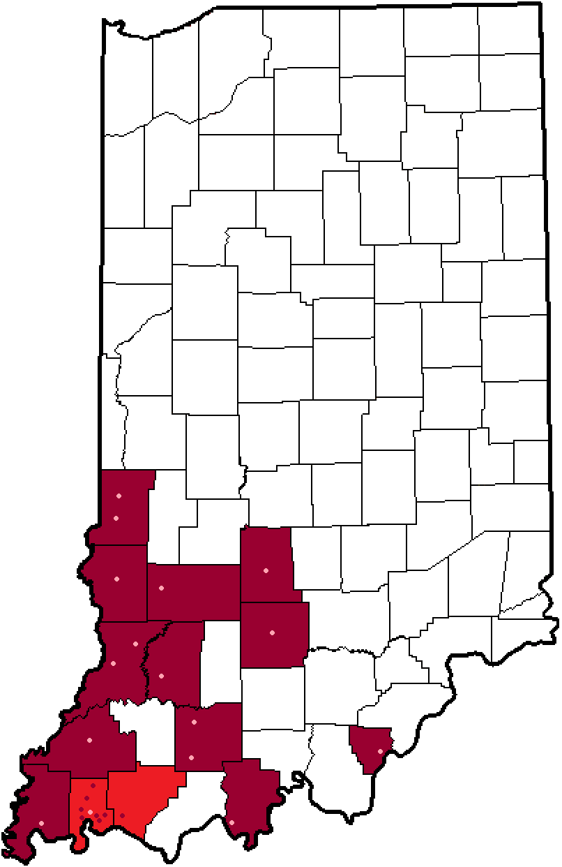 Indiana Map with current SIAC counties and former SIAC counties highlighted. Current Counties in red and former counties in Maroon with schools in pink. One in Vanderburgh is Rex Mundi, consolidated into Central HS.